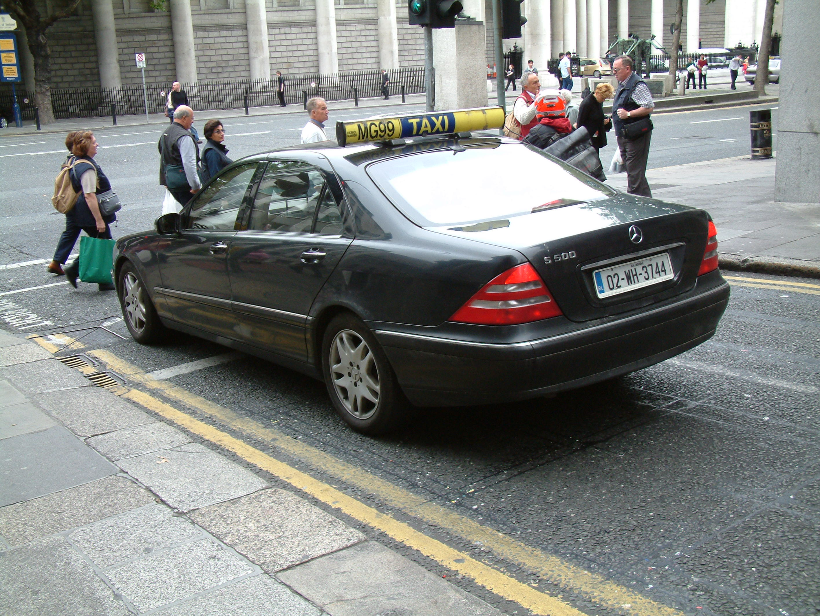 The famous taxi of Ryanair CEO Michael O'Leary (Ryanair). The valid taxi bar on the roof means the car can use the bus lanes when threading through gridlocked Dublin.